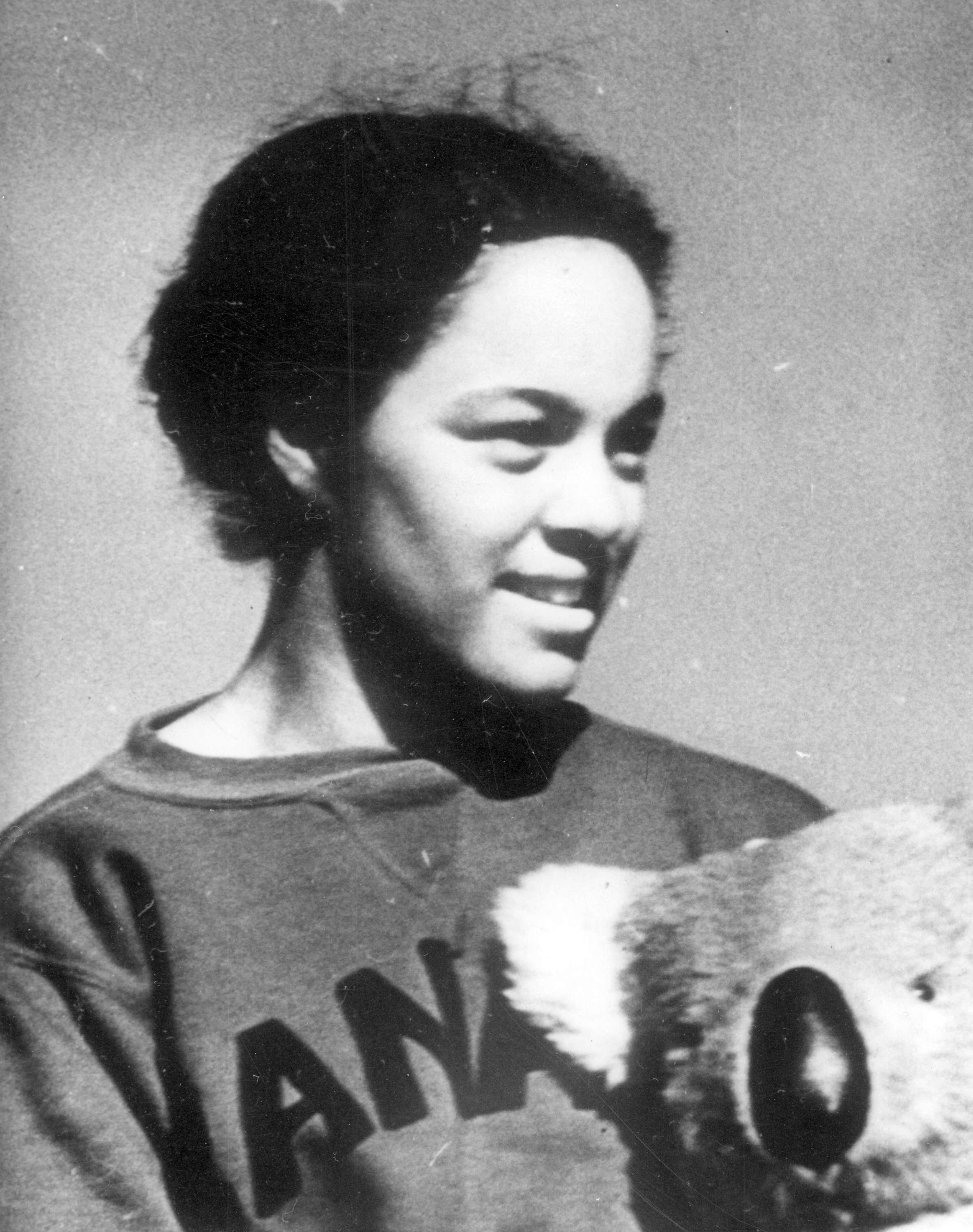 Barbara Howard pictured holding a stuffed koala bear during her visit to Australia for the 1938 Commonwealth Games